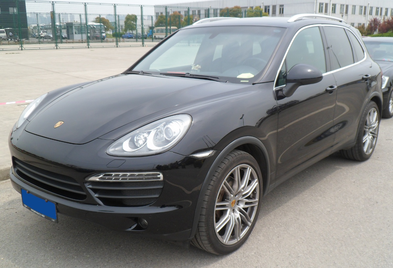 Porsche Cayenne - Type 958 - photographed in Anting, Shanghai municipality, China.